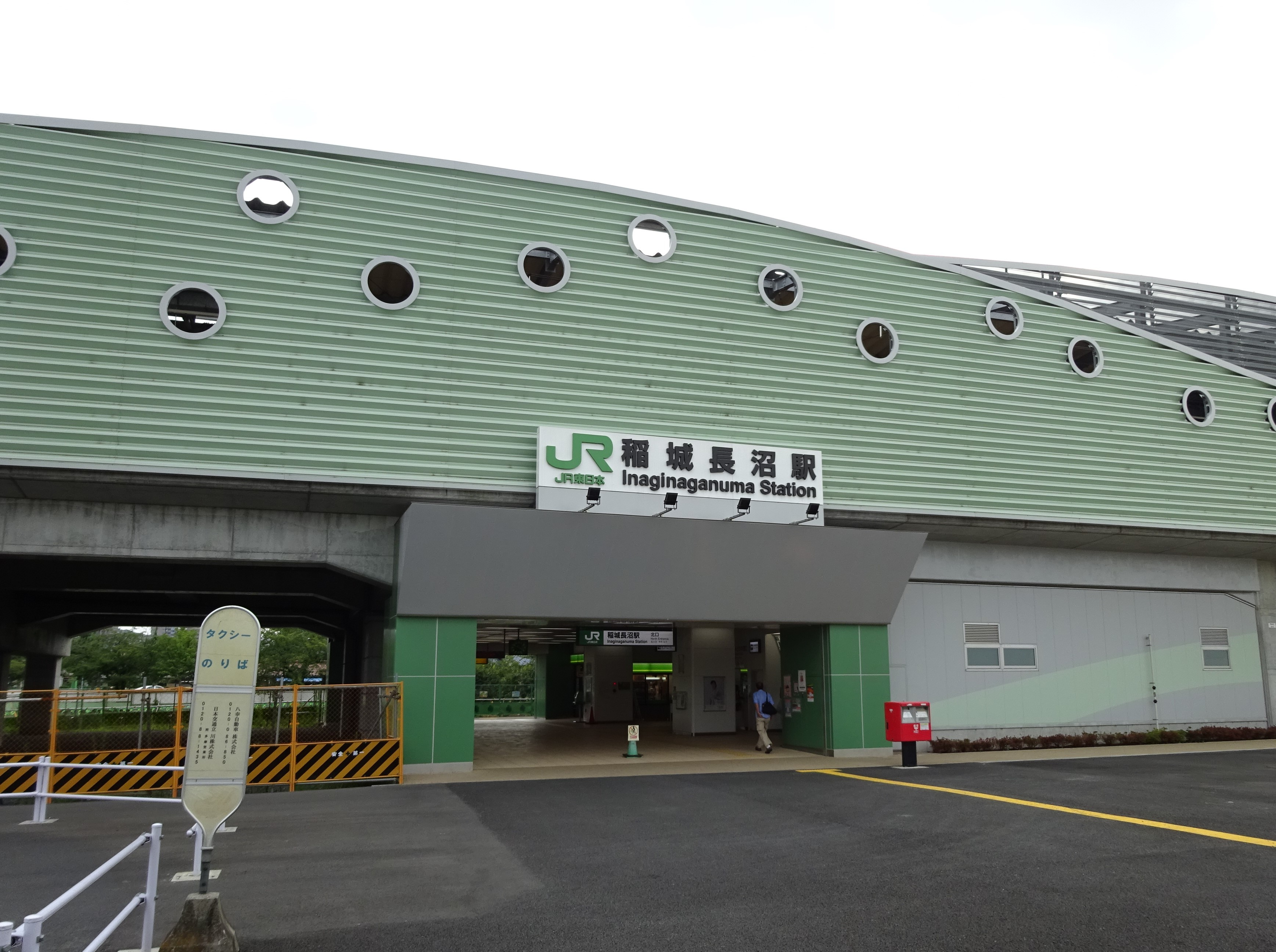 North Entrance of Inagi-Naganuma Staion